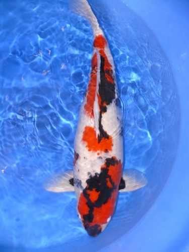 Showa